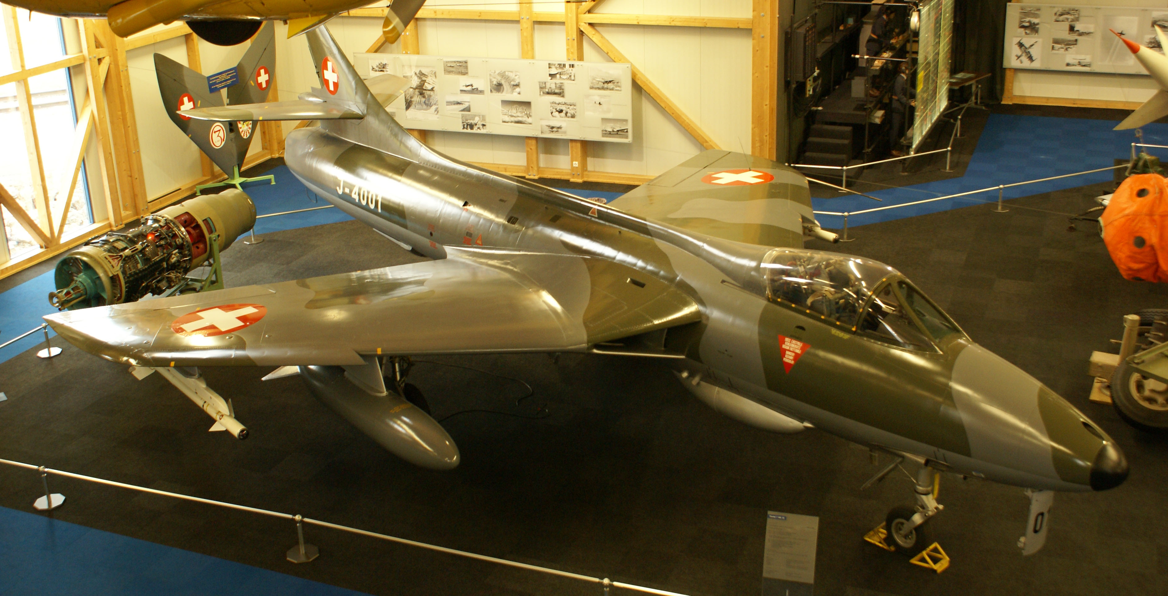 Hawker Hunter Mk.58 (F.6 export version) strike fighter as used by the Swiss Air Force from 1958 to 1994.